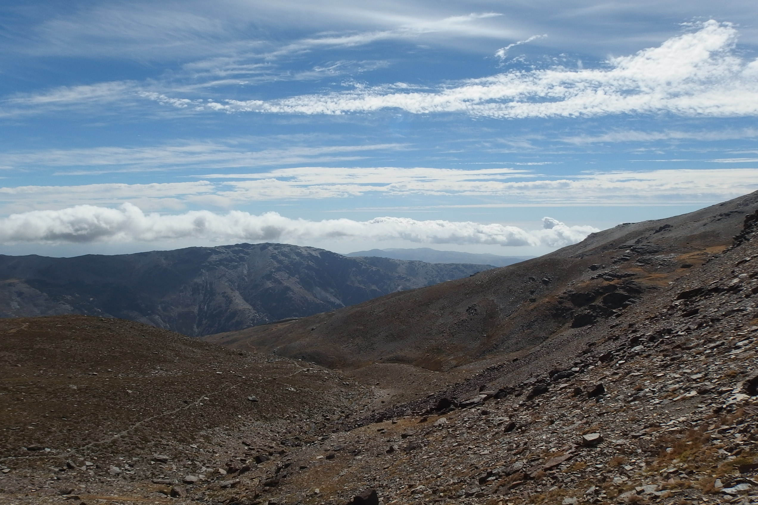 Trail from Siete Lagunas (Seven Lakes) to Trevelez